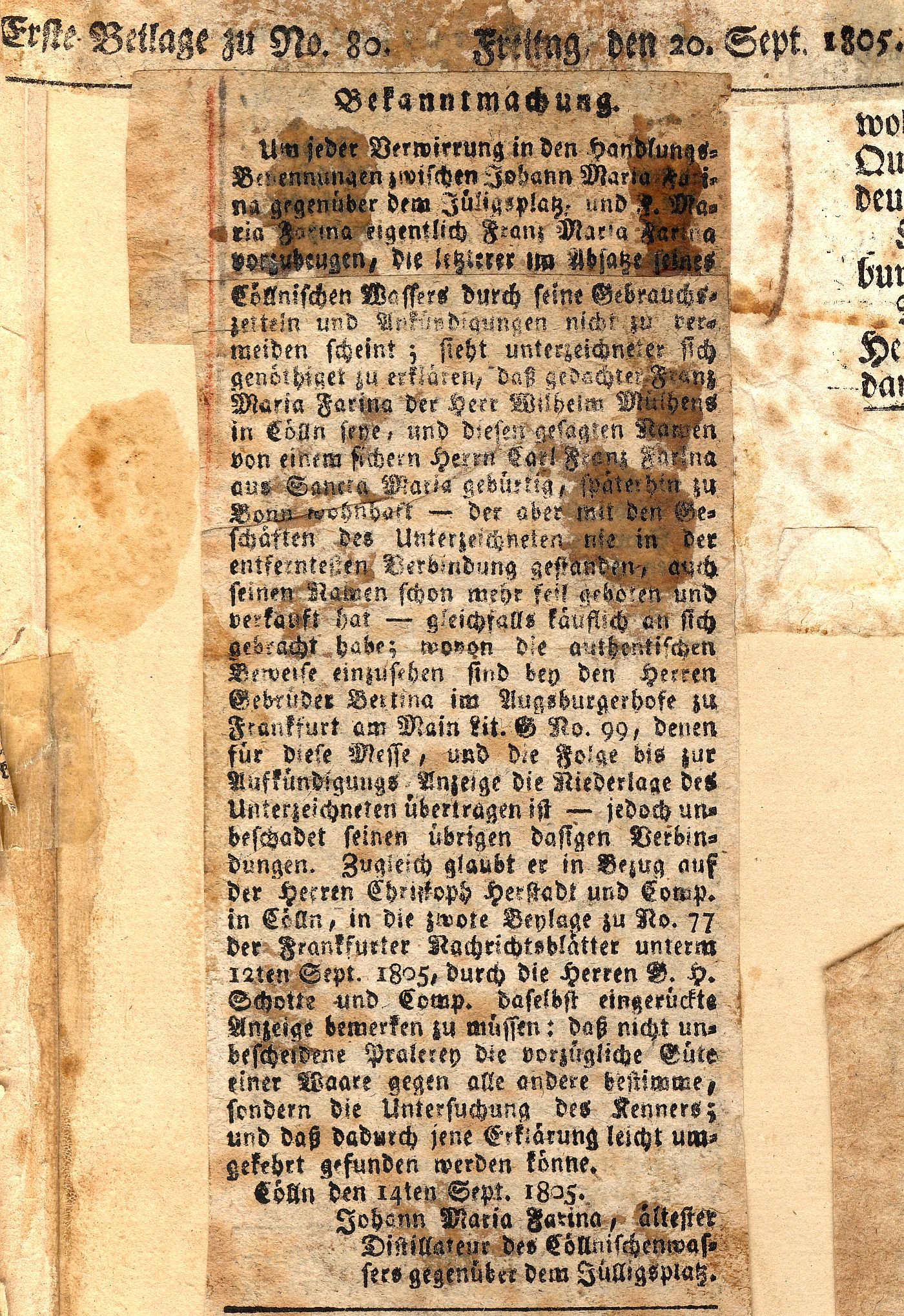 1805-Frankfurter-Nachrichtsblaetter-No80